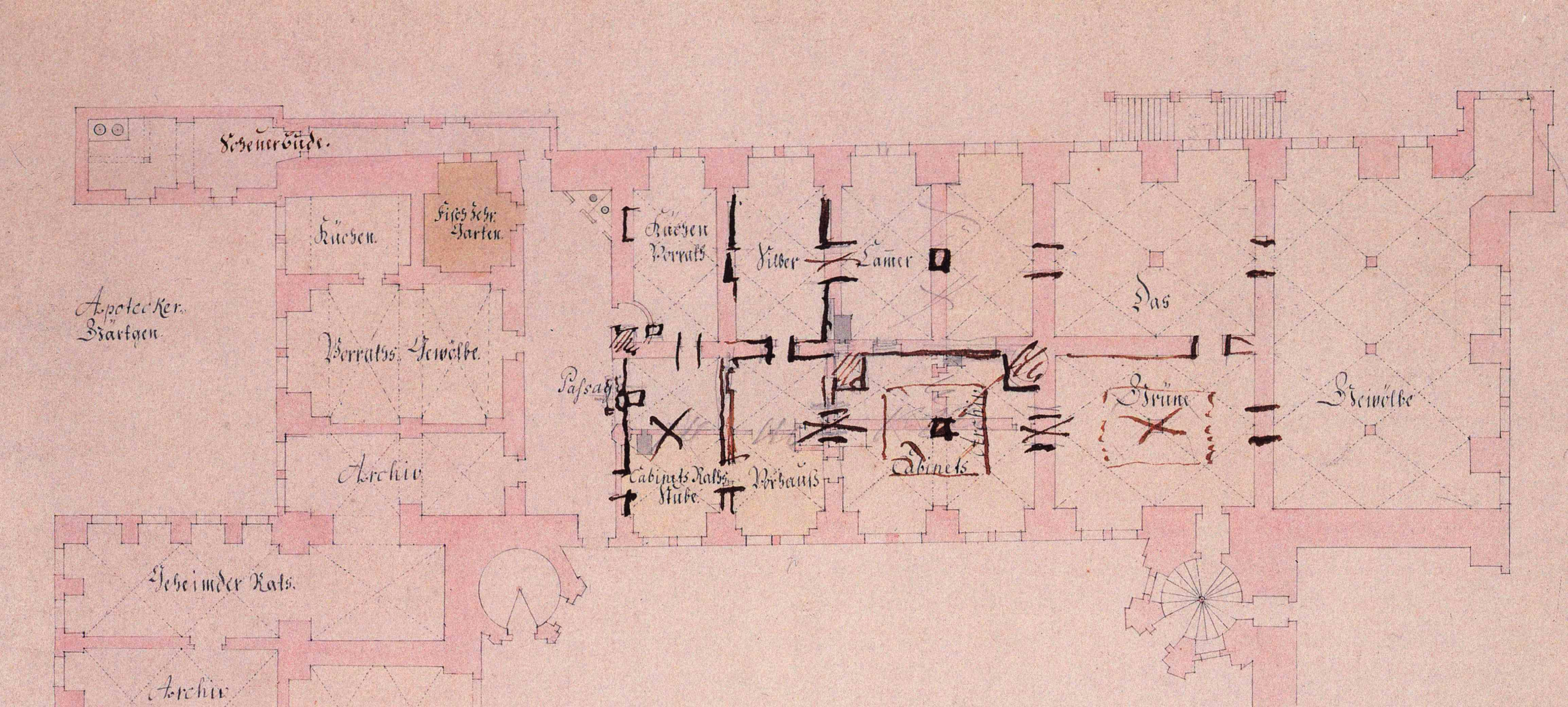 Plan of the ground floor of the west wing of Dresden Castle with handwritten notes by Augustus the Strong in connection with the expansion of the Grünes GewölbeGreen Vault